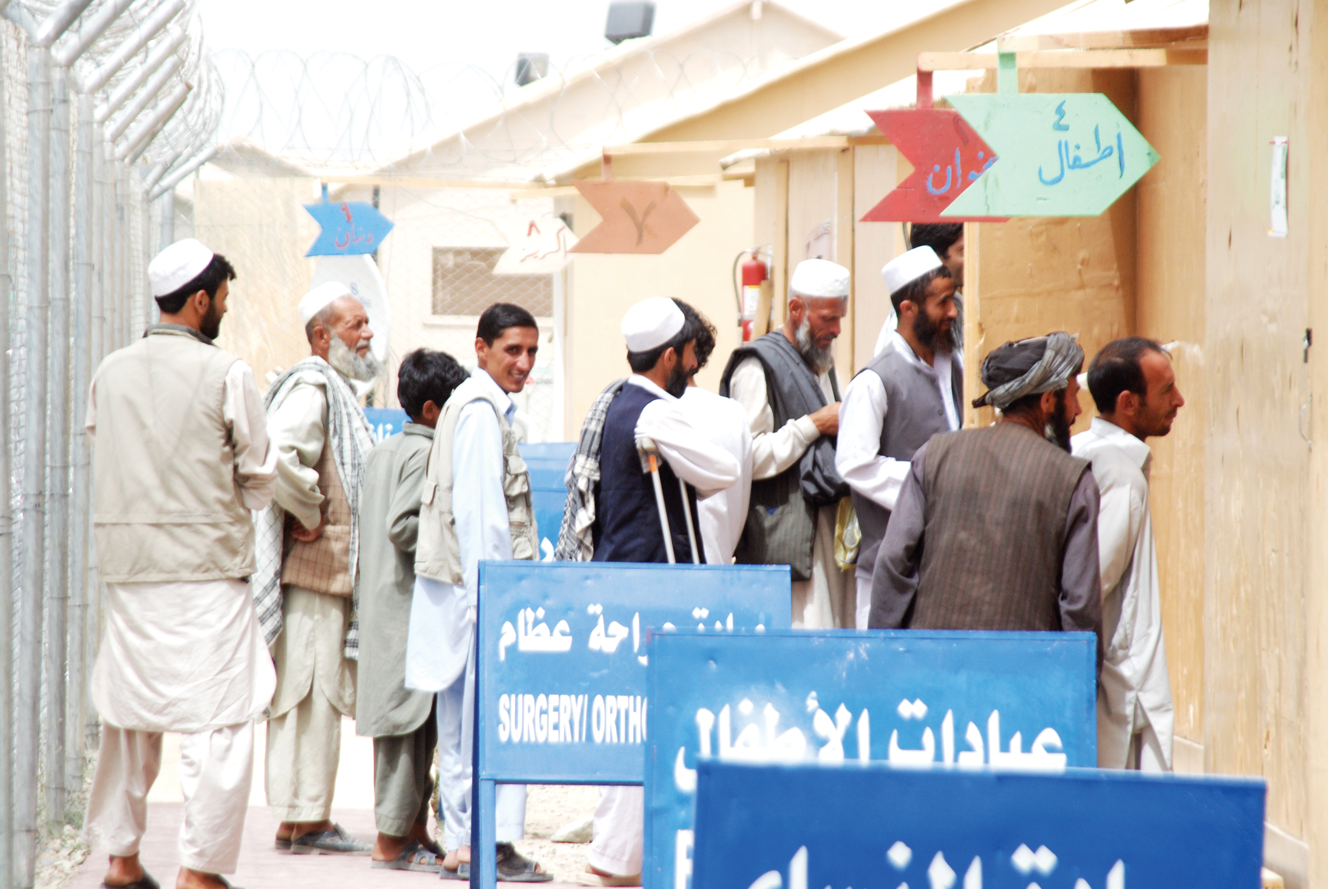 Afghans wait in line outside of the Egyptian Field Hospital at Bagram Airfield, Afghanistan. The clinic cares for Afghans as well as coalition servicemembers supporting Operation Enduring Freedom. U.S. Air Force photo by Senior Airman George Cloutier, American Forces Network Afghanistan